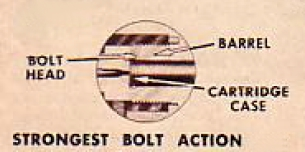 Remington Strongest Bolt Action Image